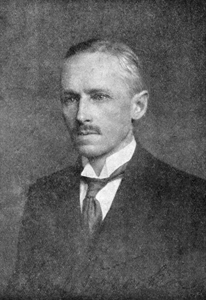 Karel Vorovka (1879-1929), was a Czech mathematician and philosopher.